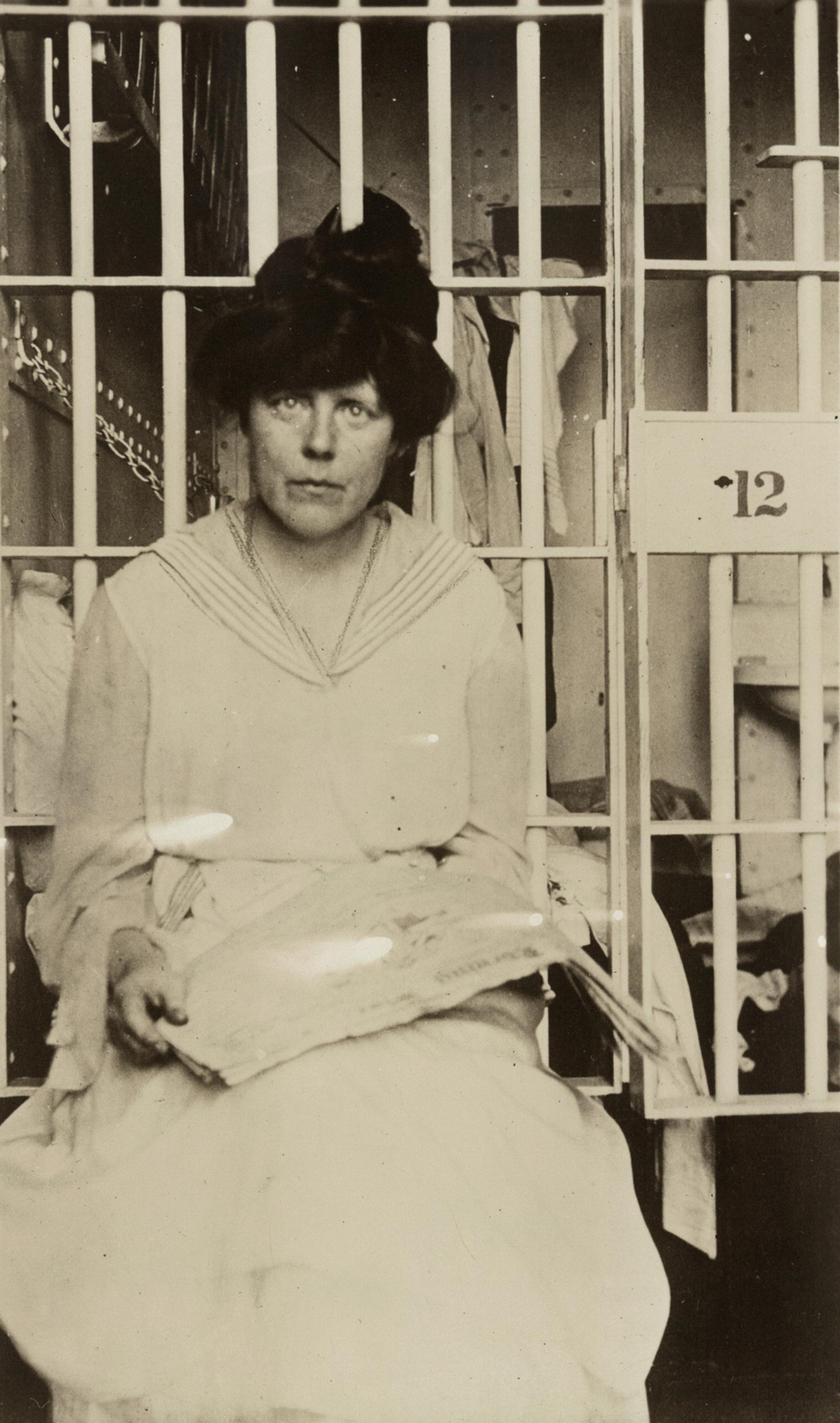 Miss Lucy Burns in Occoquan Workhouse, Washington Women of Protest: Photographs from the Records of the National Woman's Party, Manuscript Division, Library of Congress, Washington, D.C.